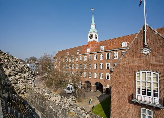 Elizabeth II Court, Upper High Street The building with the clock tower is actually a square around a central, open courtyard. What you can see in this picture is only the southwestern side of the square. The photo is taken from the roof of the old West Gate, which is now a museum. The road below, between the stonework and the brickwork, and also seen further left, is Upper High Street. Elizabeth II Court is where Hampshire County Councillors have their offices.